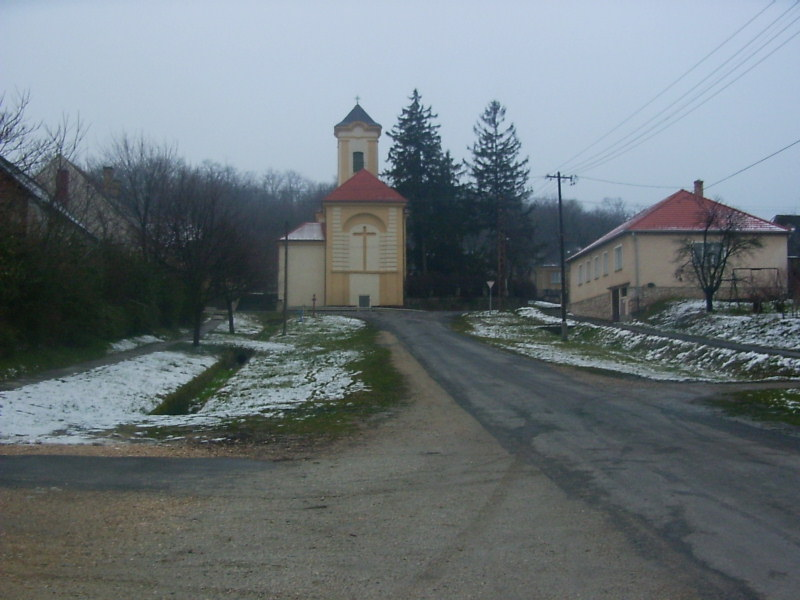 Táp, Church of the Holy Trinity This is a photo of a monument in Hungary, Identifier: 5140